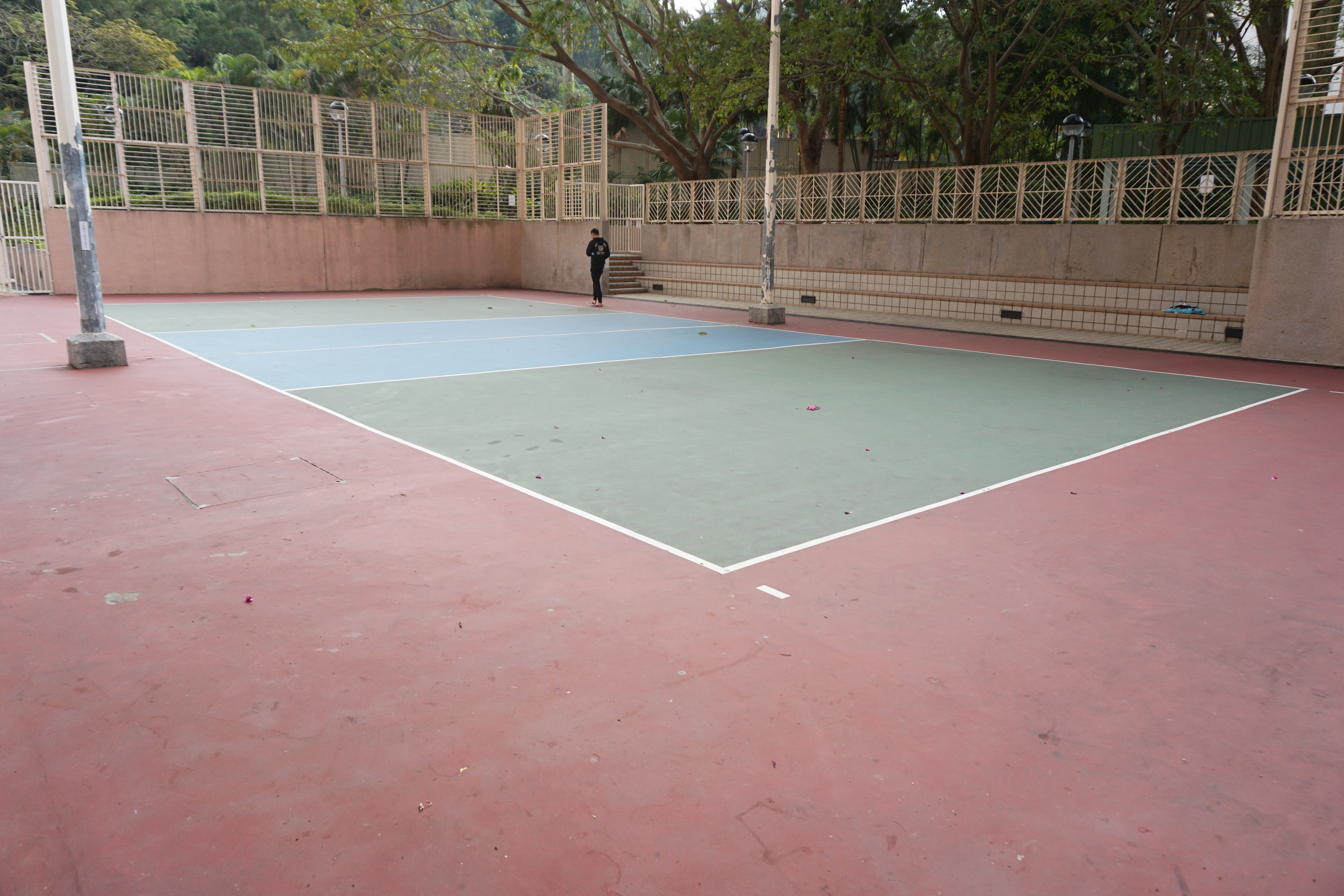 Hing Wah (I) Estate in Chai Wan, Hong Kong.